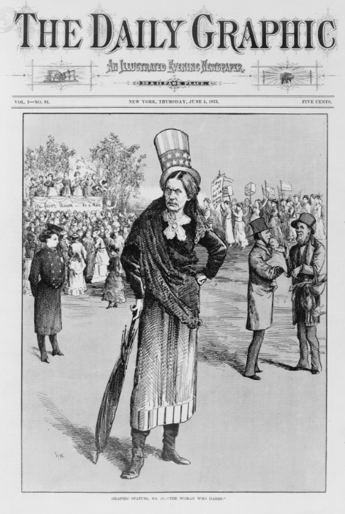 A caricature of Susan B. Anthony on the front page of the New York Daily Graphic. It appeared a few days before her trial for voting, and it accompanied a story about the upcoming trial.